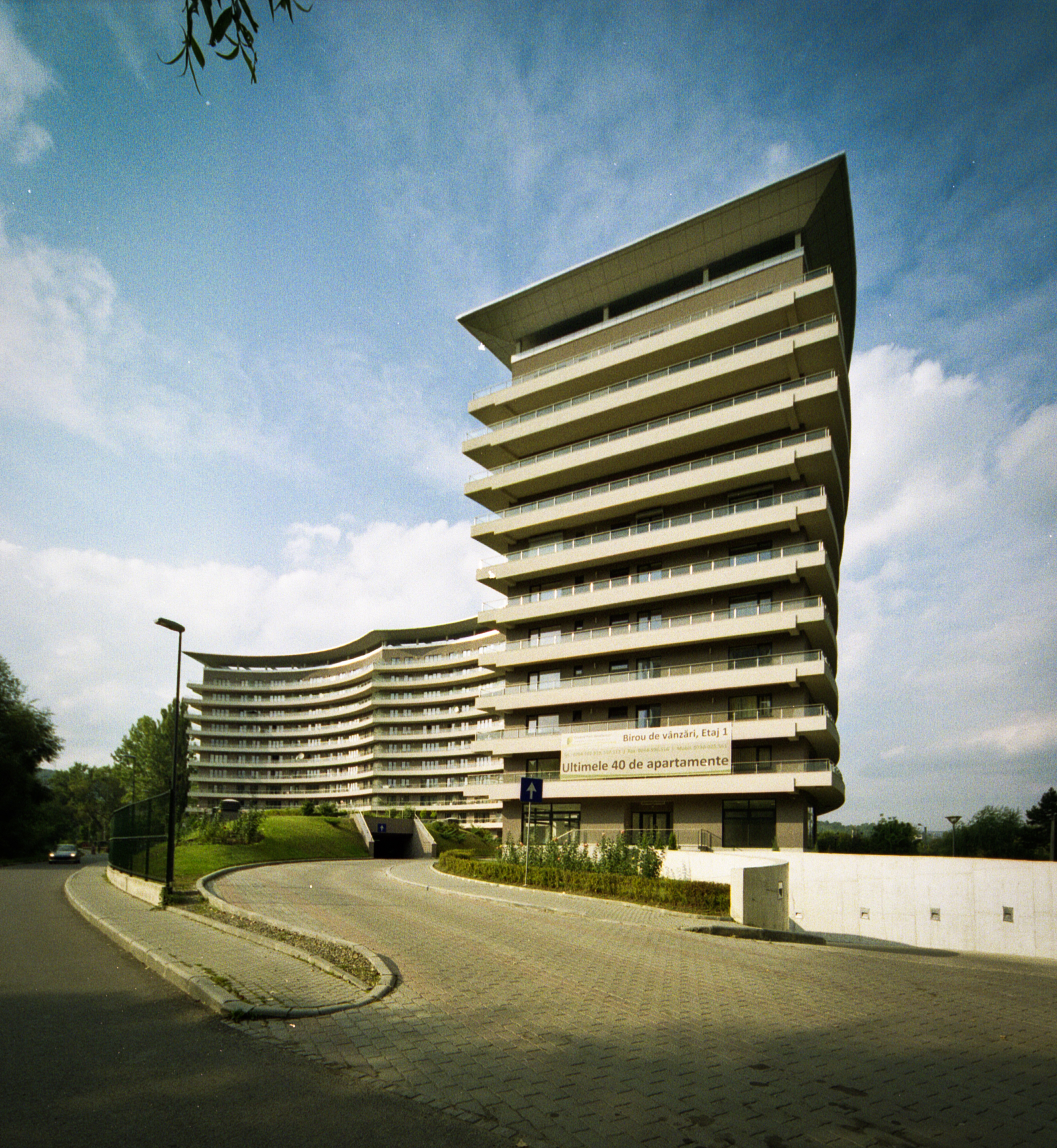 Central Park Residence Plopilor Vest